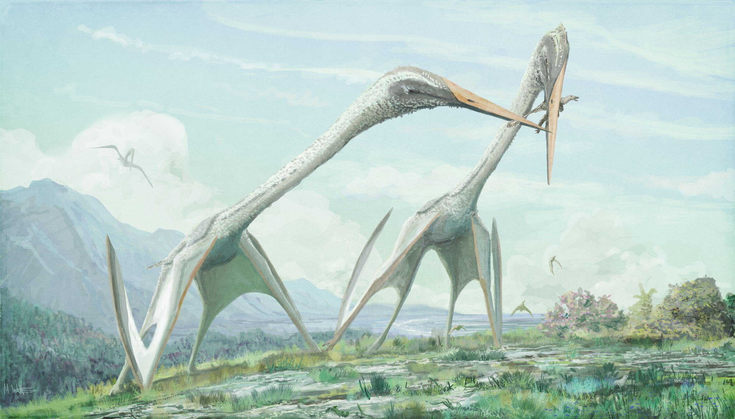 Two giant, long-necked azhdarchids—the Maastrichtian species Arambourgiania philadelphiae—argue over a small theropod. Because large predatory theropods are unknown on Late Cretaceous Haţeg Island, giant azhdarchids may have played a key role as terrestrial predators in this community.